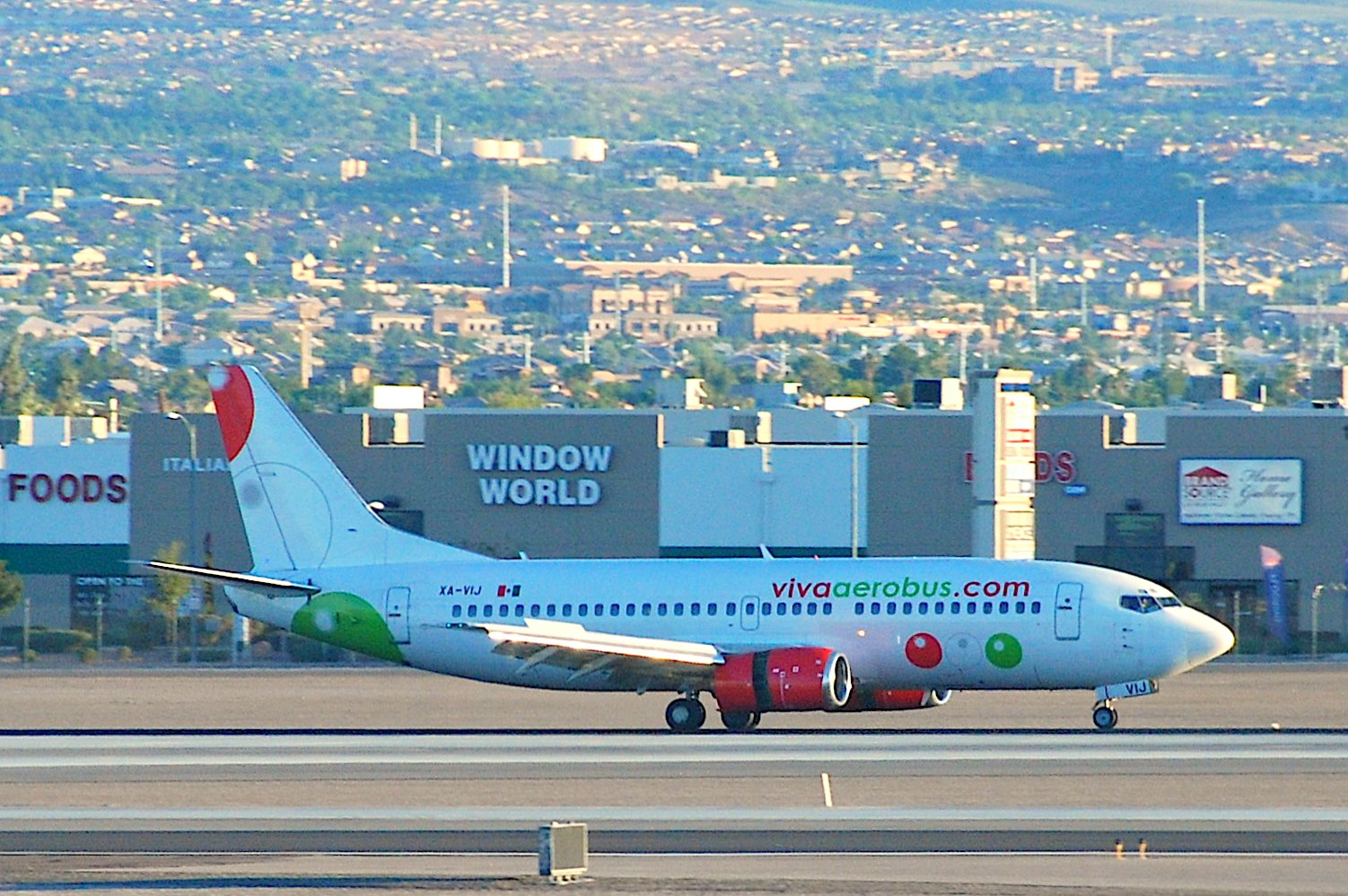 This Boeing 737-3Y0 took its first flight on March 14, 1990...(c/n 24677/ 1837) 29/03/1990 Philippine Airlines EI-BZJ 19/07/2005 AirAsia 9M-AEC 07/01/2010 Viva AeroBus XA-VIJ